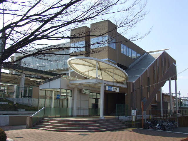 North building of Satsukidai station,OER-TAMA-LINE,Odakyu Electric Railwey,Japan